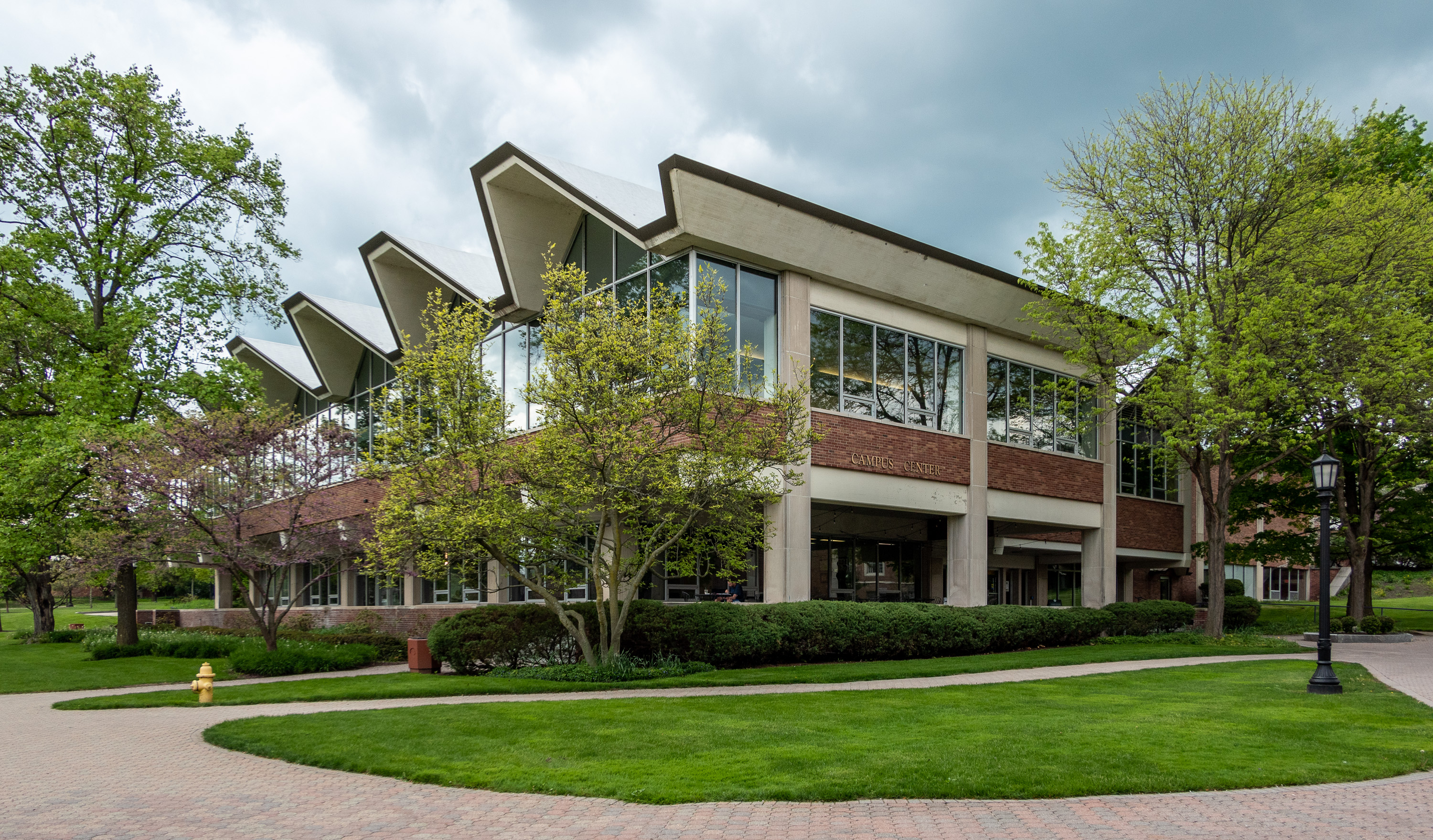 Campus Center, Elmira College, Elmira New York